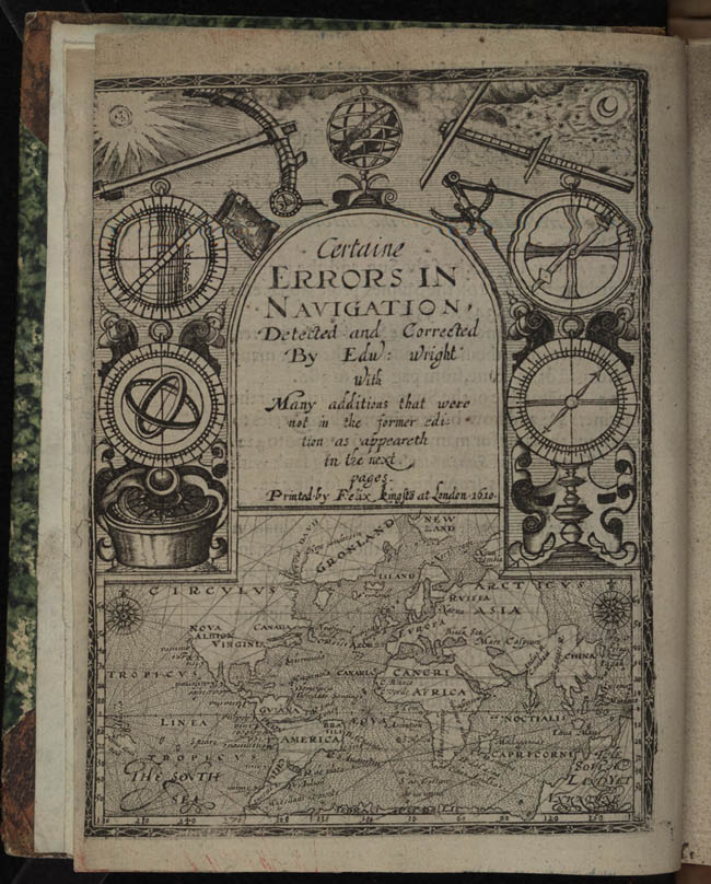 Title page of Certaine Errors in Navigation (2nd ed., 1610) by English mathematician and cartographer Edward Wright (1561–1615). The book was the first to set out the mathematics of the Mercator projection.